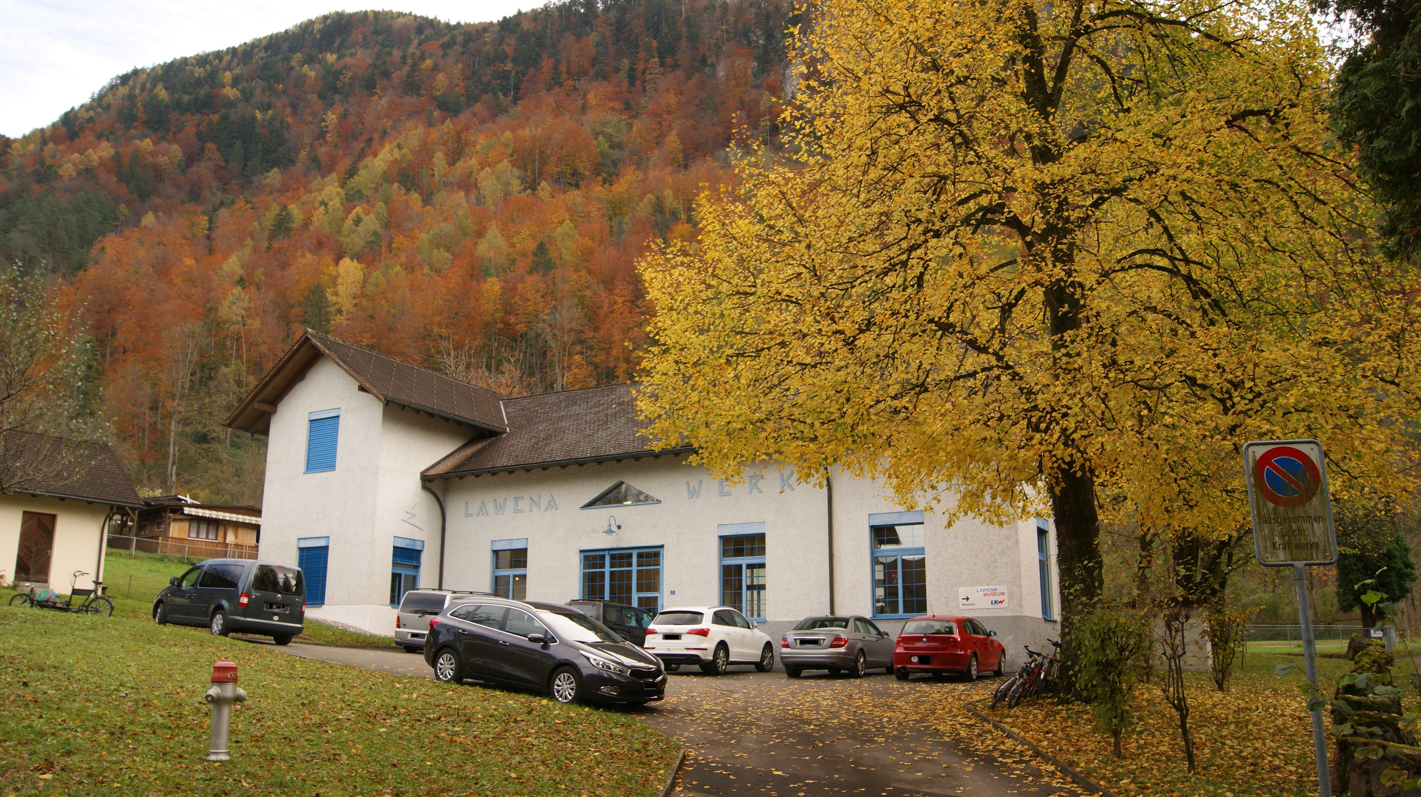 Lawena Power Plant, Triesen, Principality of Liechtenstein (Sight from North-.West).